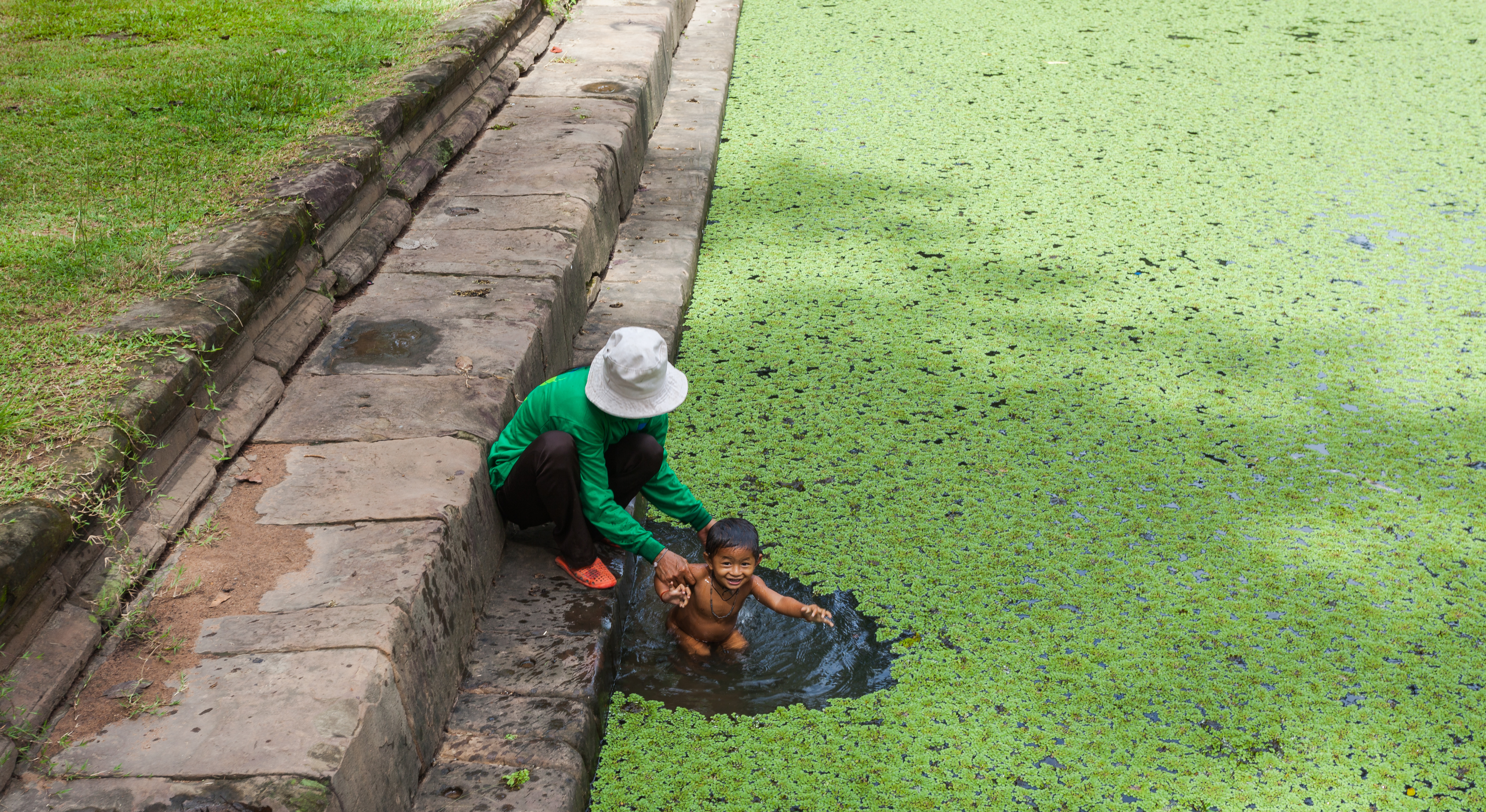 Sras Srei, Angkor Thom, Cambodia